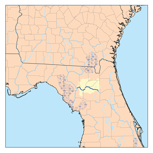 This is a map of the Santa Fe River watershed. I, Karl Musser, created it based on USGS data.